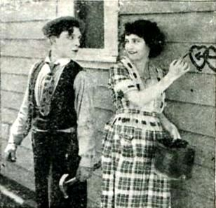 Still from the American silent film One Week (1920) with Buster Keaton and Sybil Seely, as summarized in a series of stills on page 23 of the January 1921 Film Fun. The new bride adds hearts to their newly assembled home.